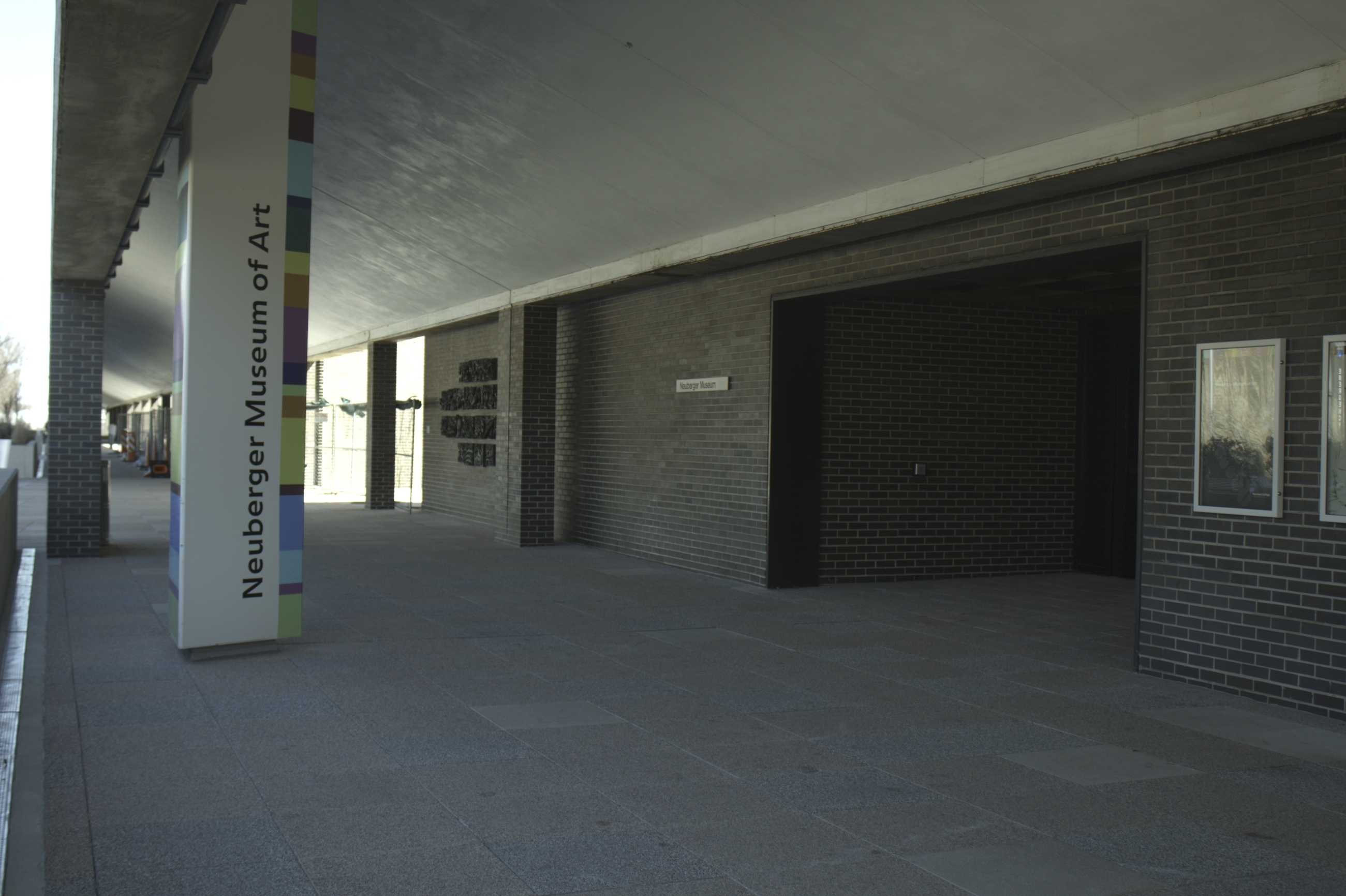 A view of the Neuberger Museum of Art main entrance at Purchase College